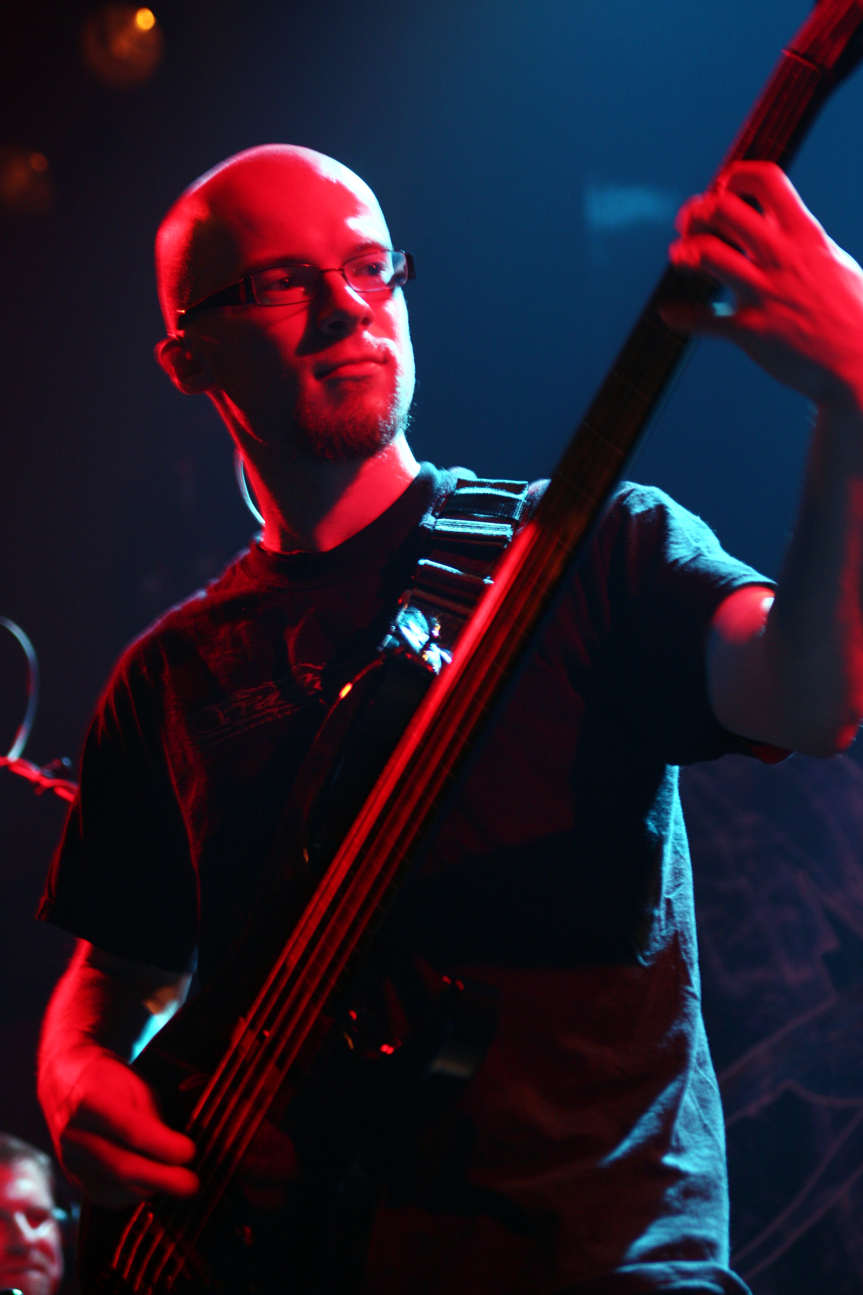 Robin Zielhorst of Cynic, 2009